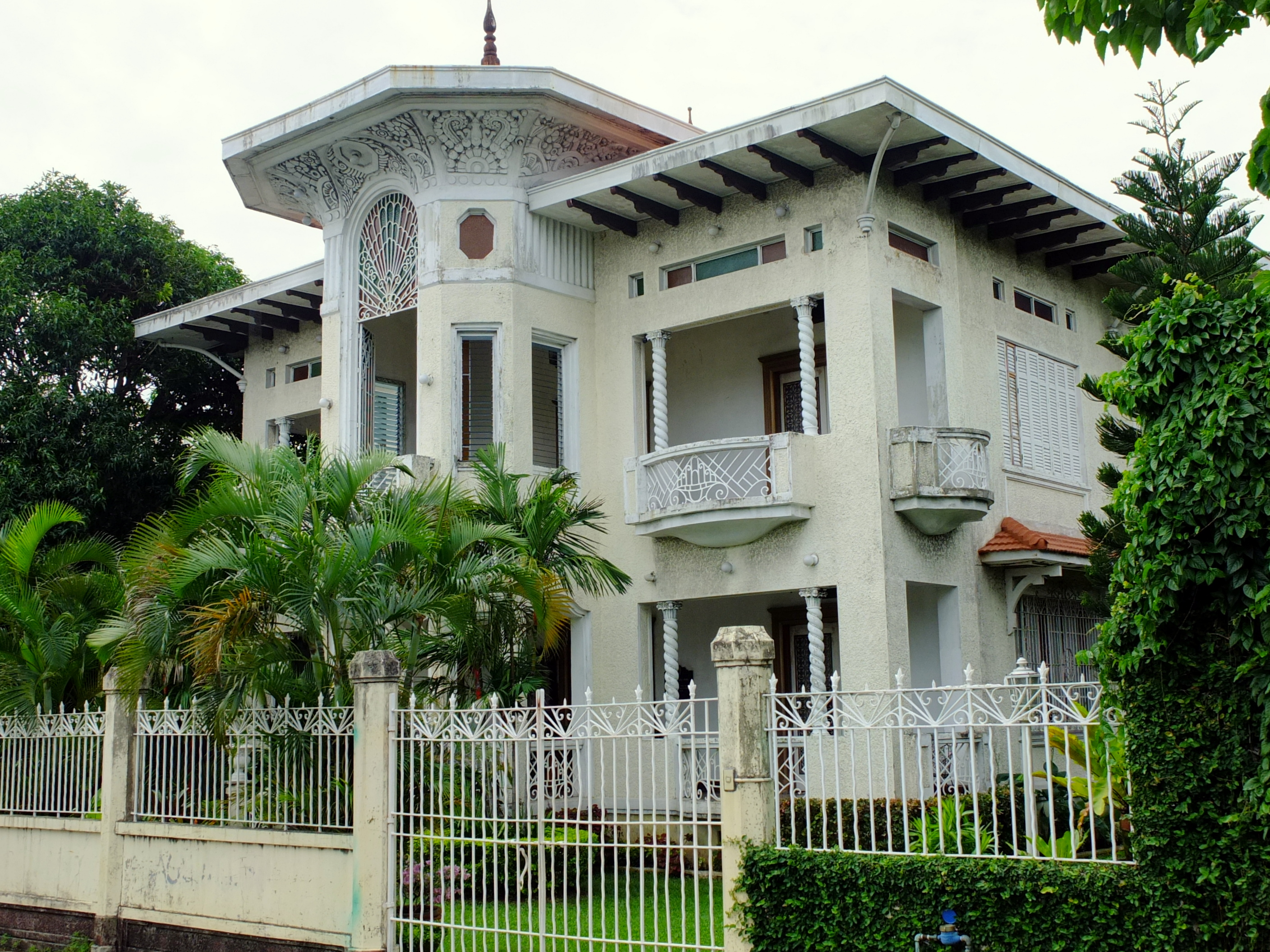 Facade of Gala-Rodriguez house in Sariaya, Quezon